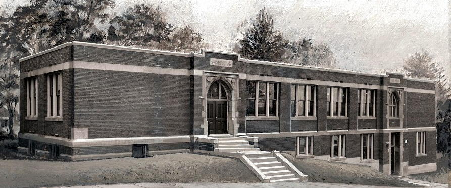 The parish school in 1910